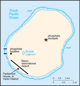 Map of Nauru, showing points of interest.